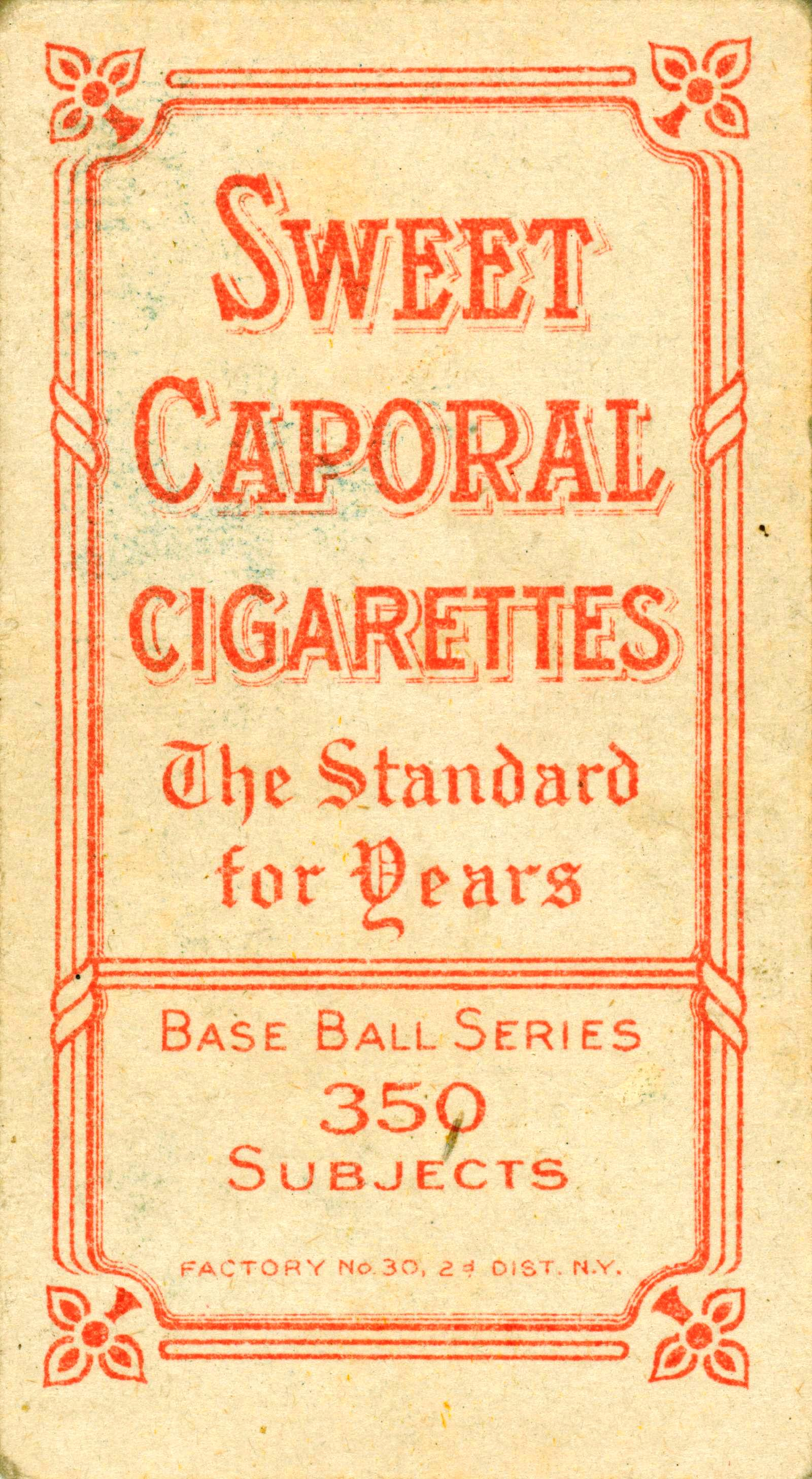 The reverse of a White Borders baseball card.